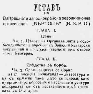 Excerpt from the statute VZRO